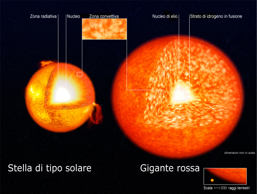 Italian translation of Image:Solar-type Red Giant structure.jpg